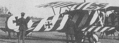 Albatros D.III (OAW) of the Oblt. Josef Loeser, in Italy, 1917